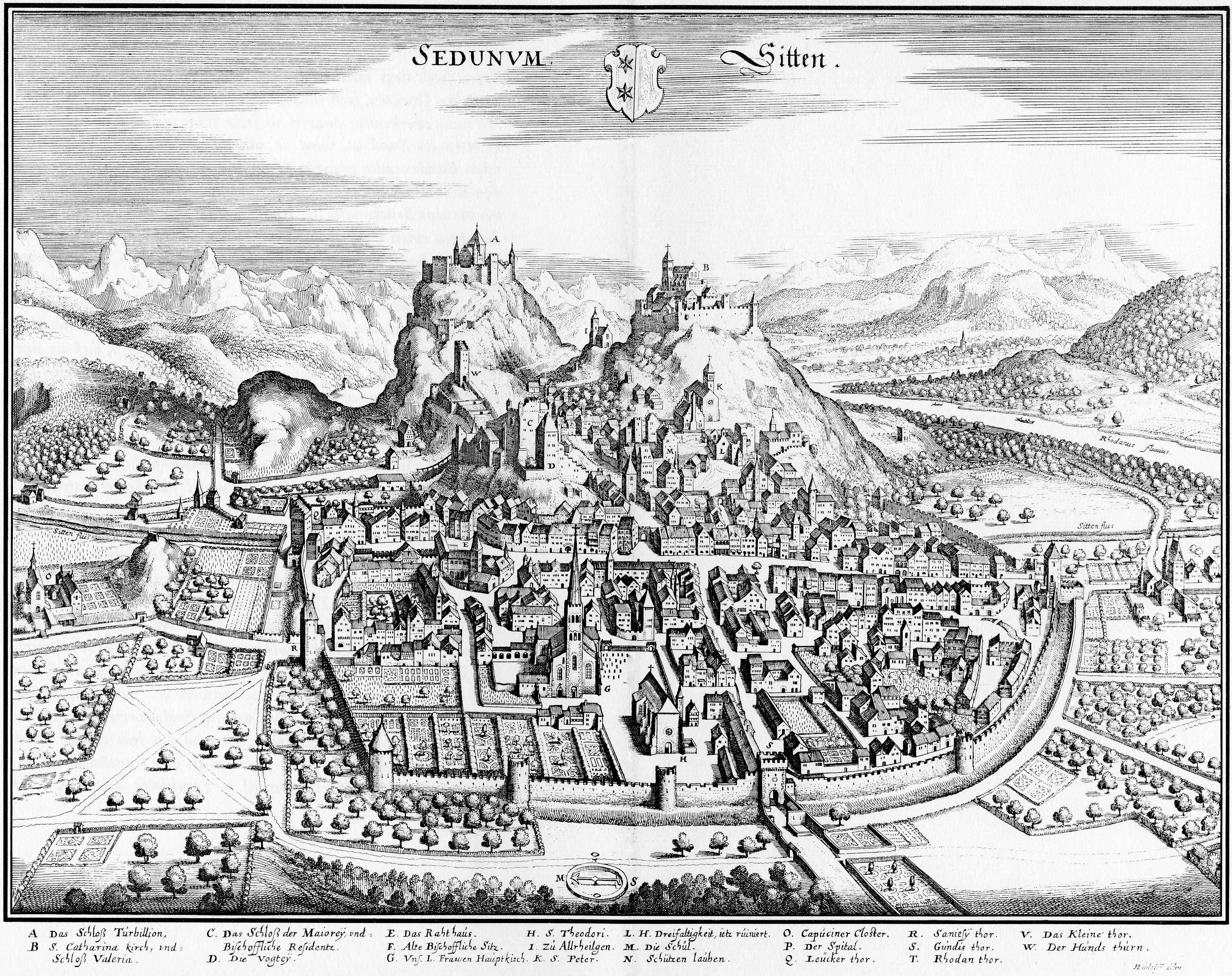 View of the city of Sitten/Sion in Valais, Switzerland around 1640.